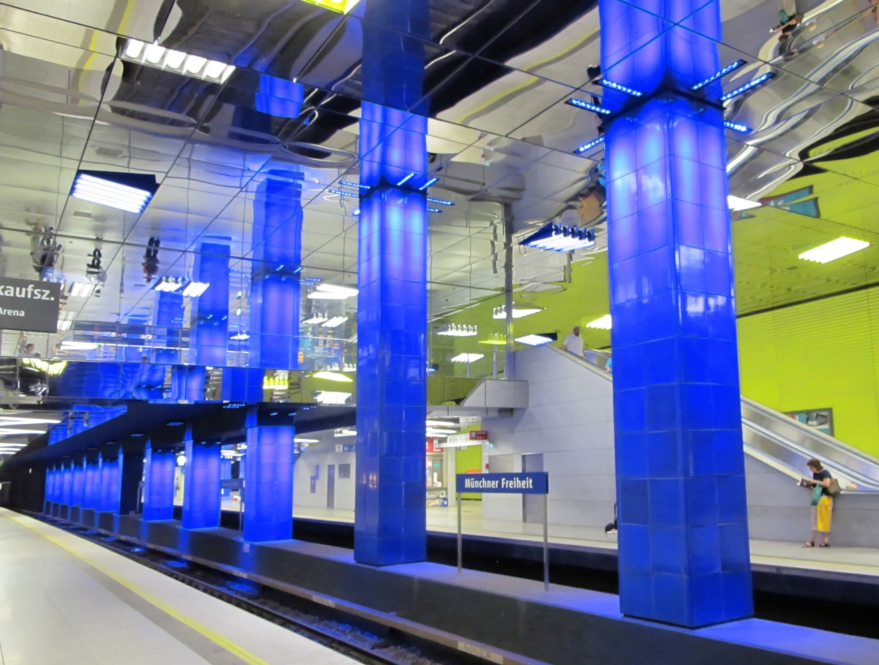 Munich, Underground Station "Münchner Freiheit"